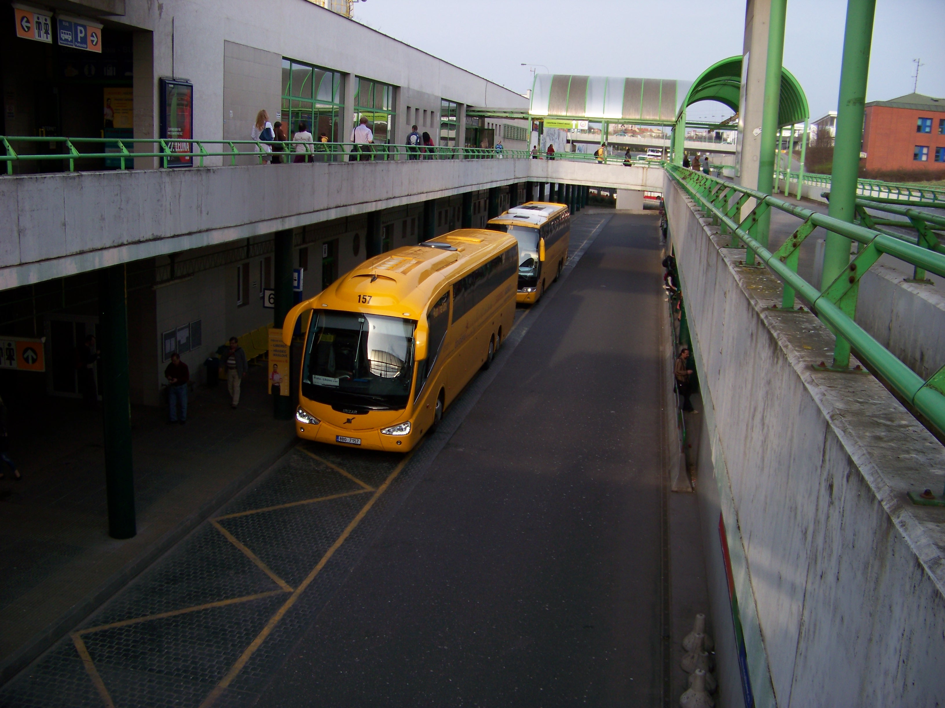 Prague-Černý Most, the Czech Republic. Bus terminal Černý Most, buses of Student Agency.